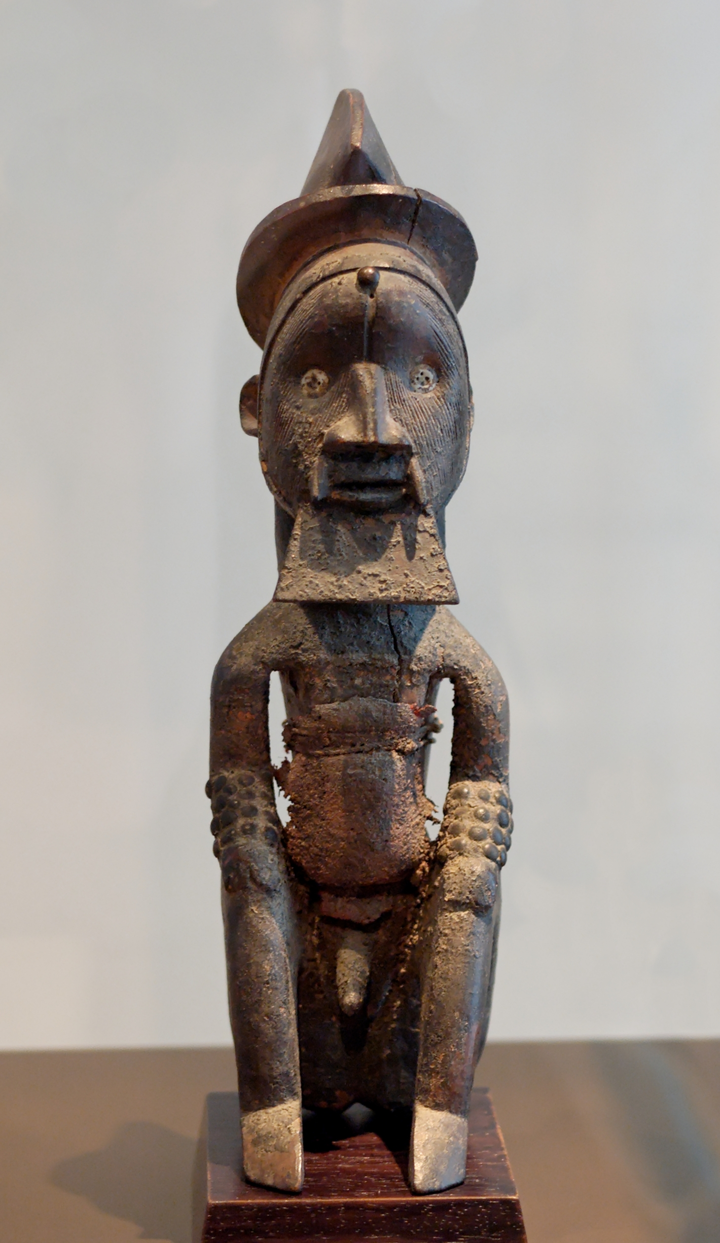 Bitegue statue of the Bateke people. Bitegue figures are placed in one corner of the house by the head of the family; their eyes turned towards the entrance, they stand as protectors and repel evil-minded people. Wood, brass-headed nails, mother-of-pearl buttons, cloth, magico-religious charge and sacrificial remains. 19th century, Republic of the Congo.